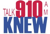 Logo of San Francisco radio station Talk 910 KNEW from 2003 to 2010